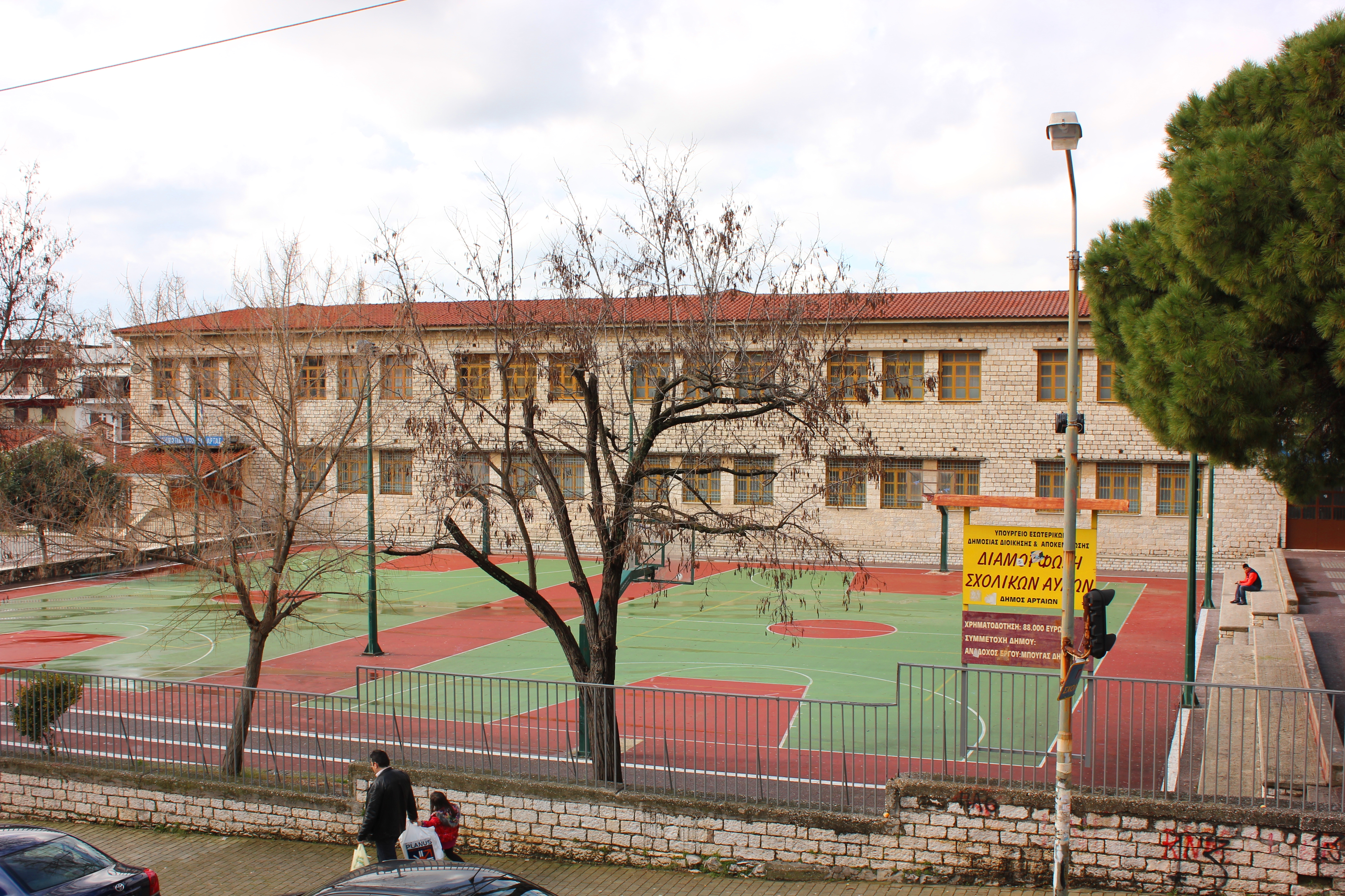 1st municipal school in Arta, Greece